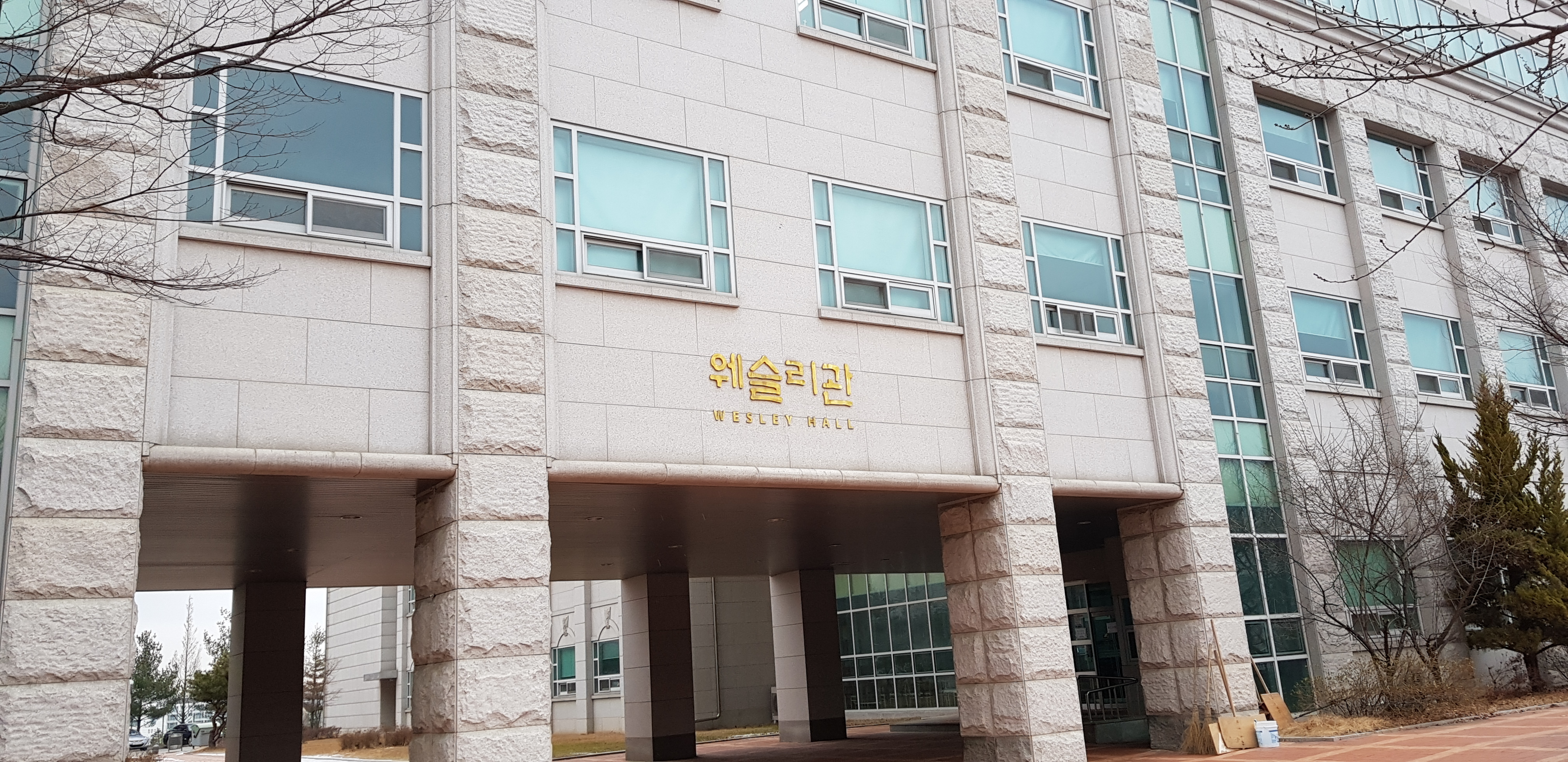 Hyubsung University